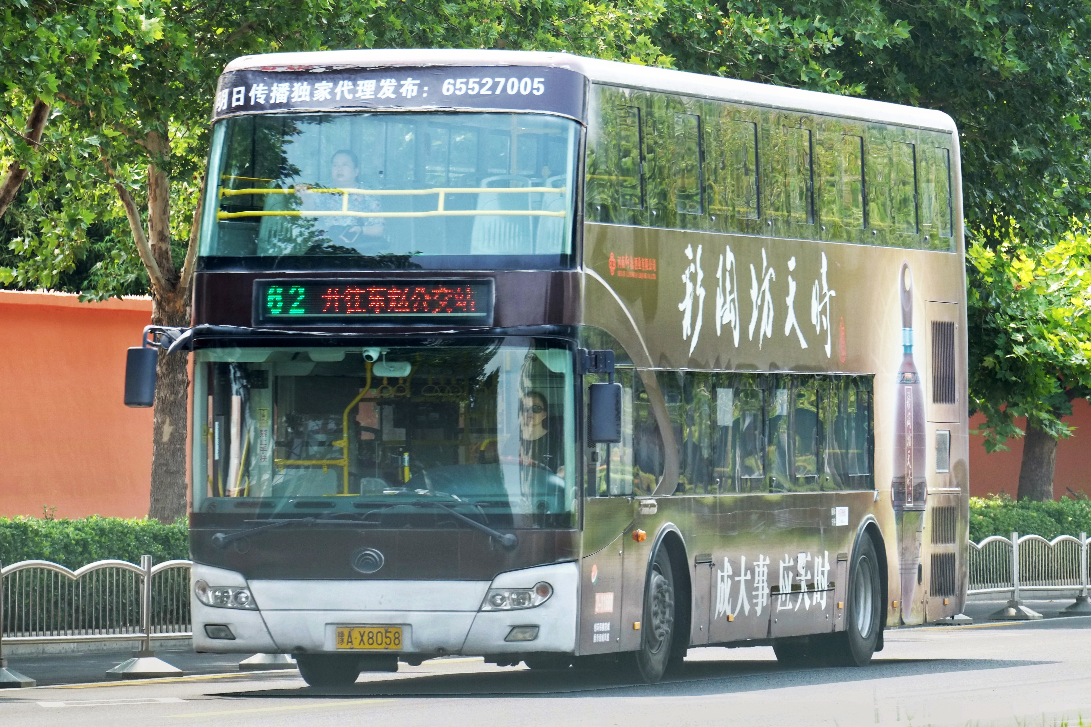 Yutong ZK6116HGS1 on ZZB Route 62